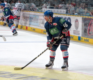 Jon Rheault, Ice hockey player from Texas, forward, Adler Mannheim